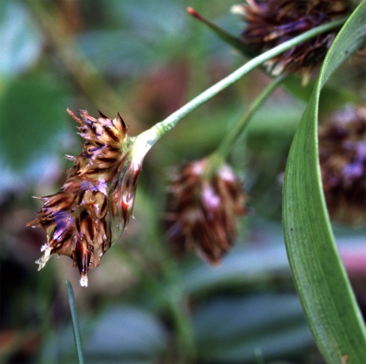 Luzula comosa at Humboldt Bay National Wildlife Refuge Complex, California, USA